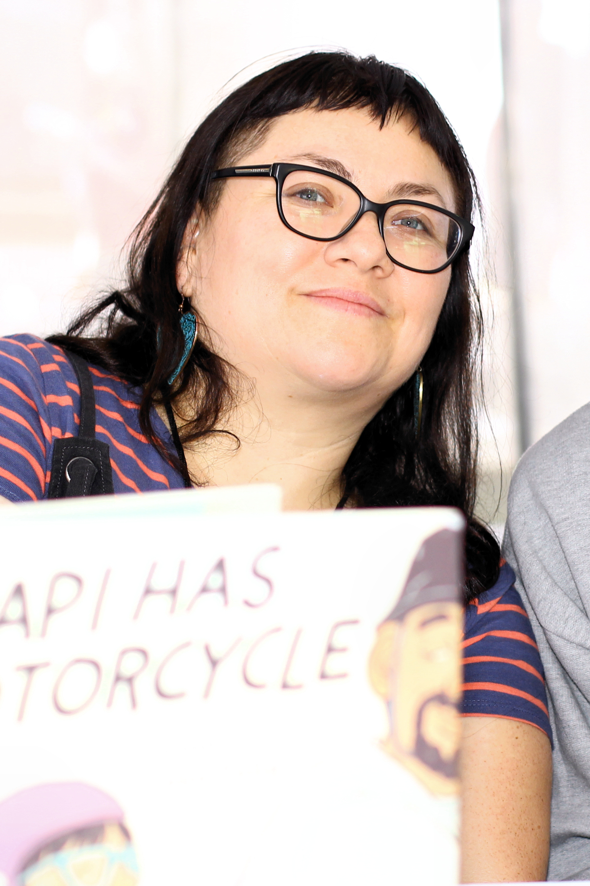 Author Isabel Quintero at the 2019 Texas Book Festival in Austin, Texas, United States.